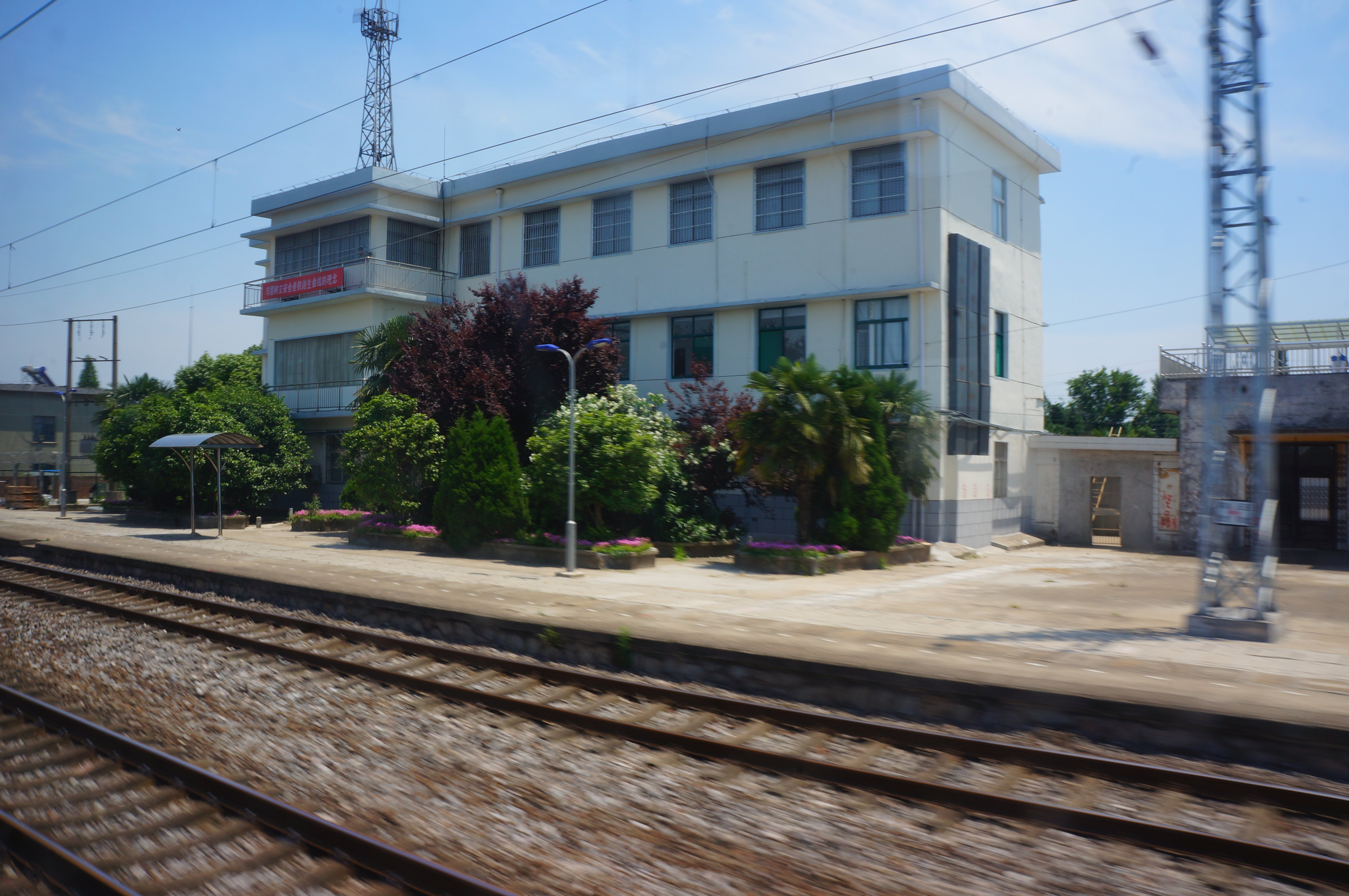 201705 Conductor of Yuxikou Station